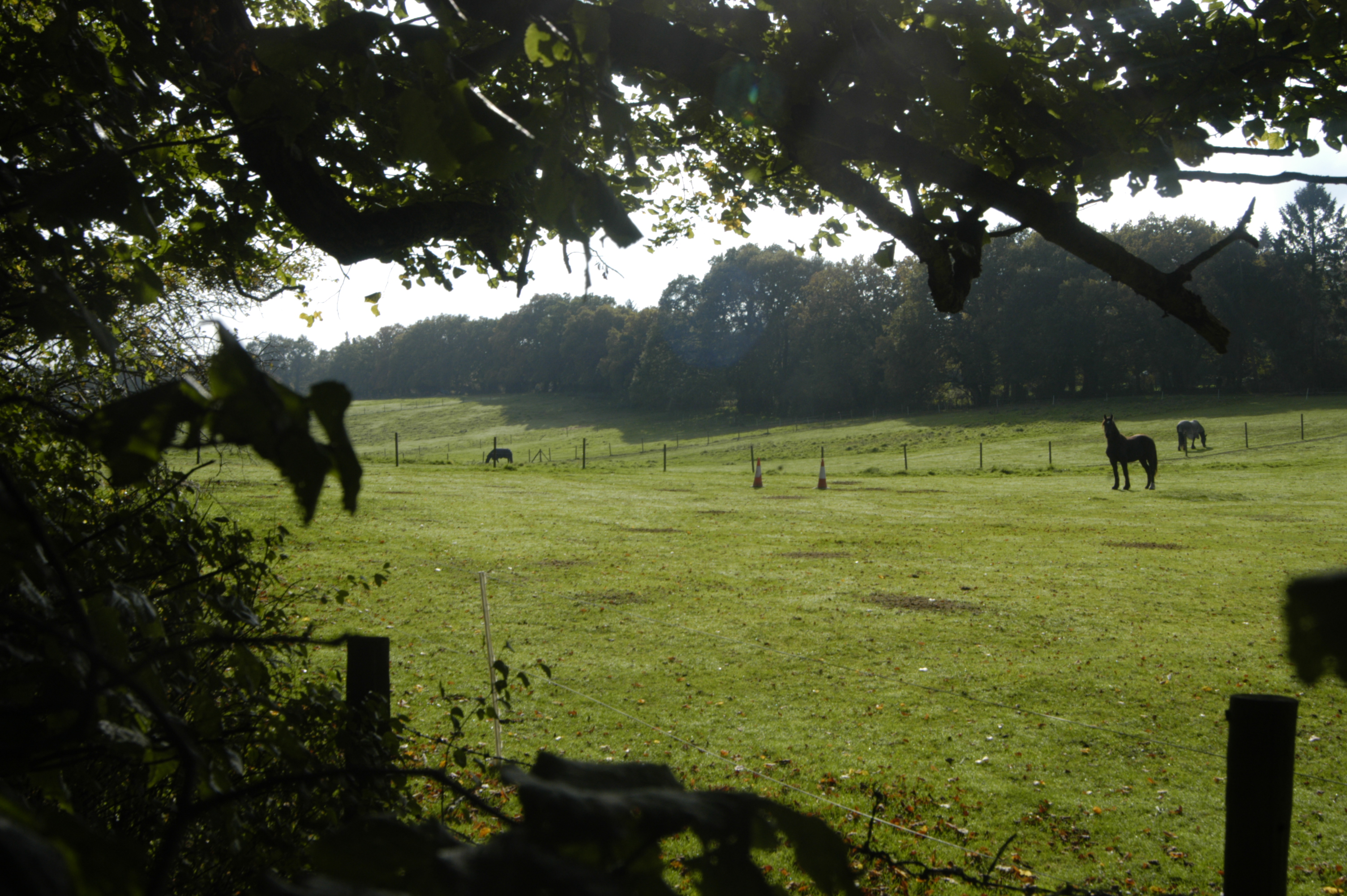 Photo (by me, R. de Salis,Rodolph (talk) 19:31, 30 October 2015 (UTC)) of a field near Warren lodge, Wash Common, Newbury, Berkshire, 2015.